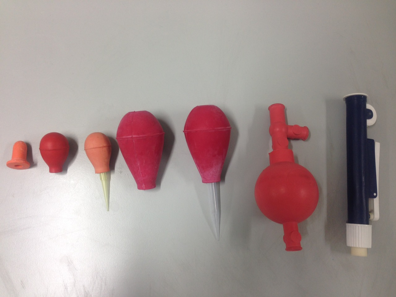 all the types of rubber bulbs and plasticsubstitute